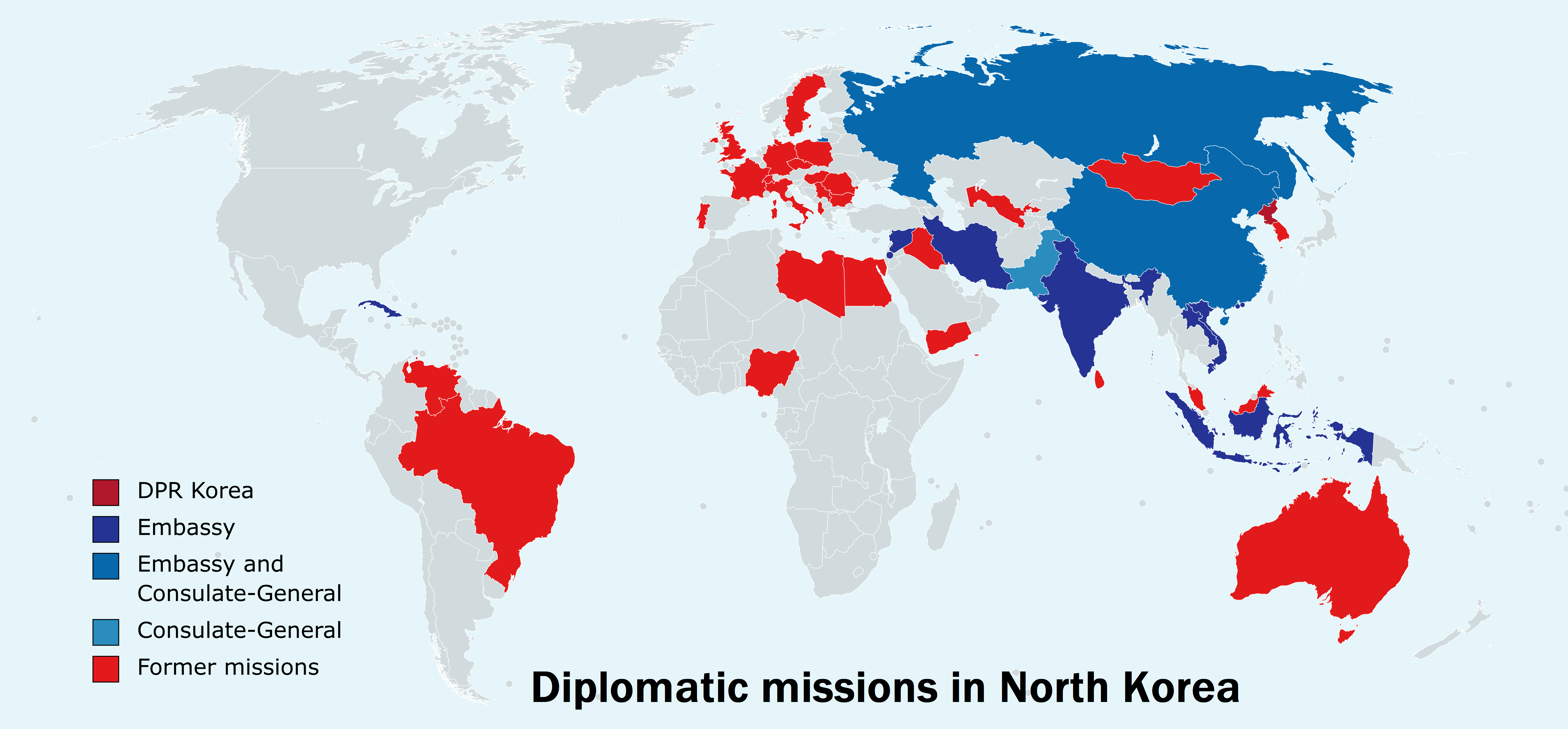 Map of diplomatic missions in North Korea